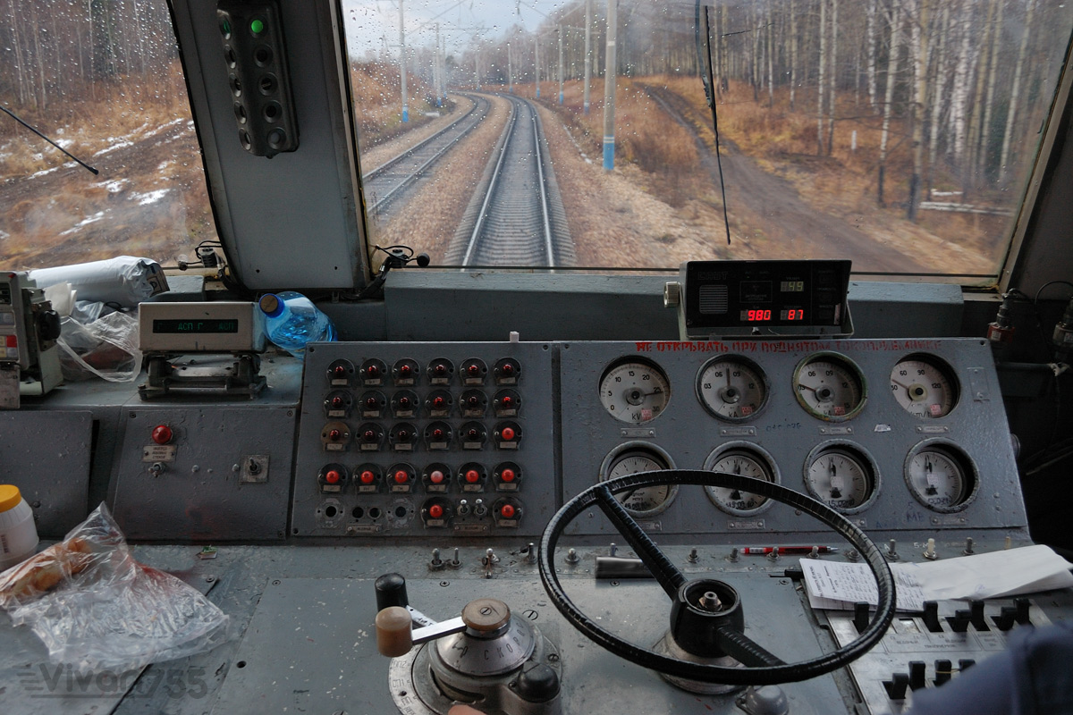 Cab of VL85 ressian electric locomotive